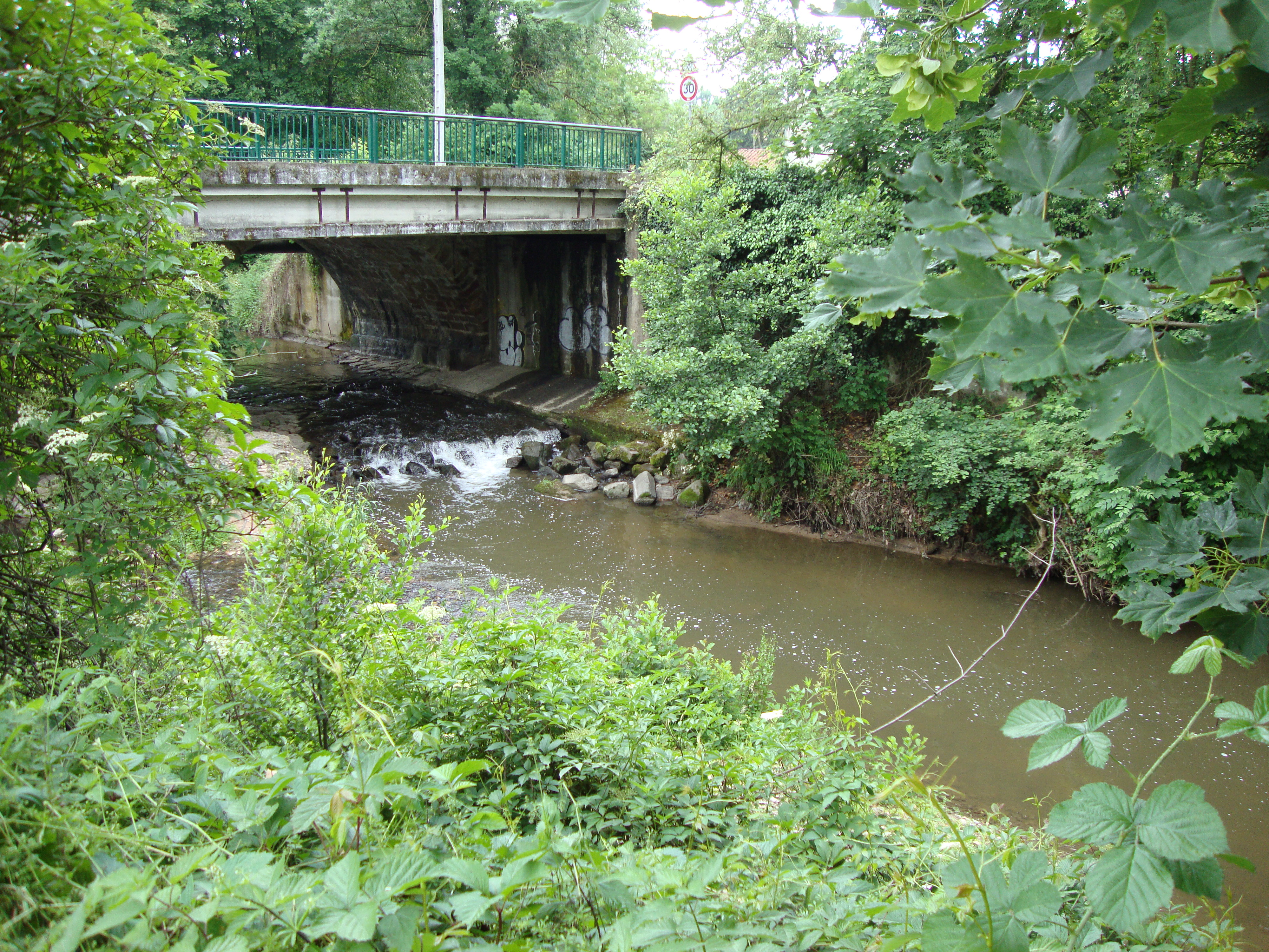 Feurs (Loire, Fr)a bridge over the Loise.